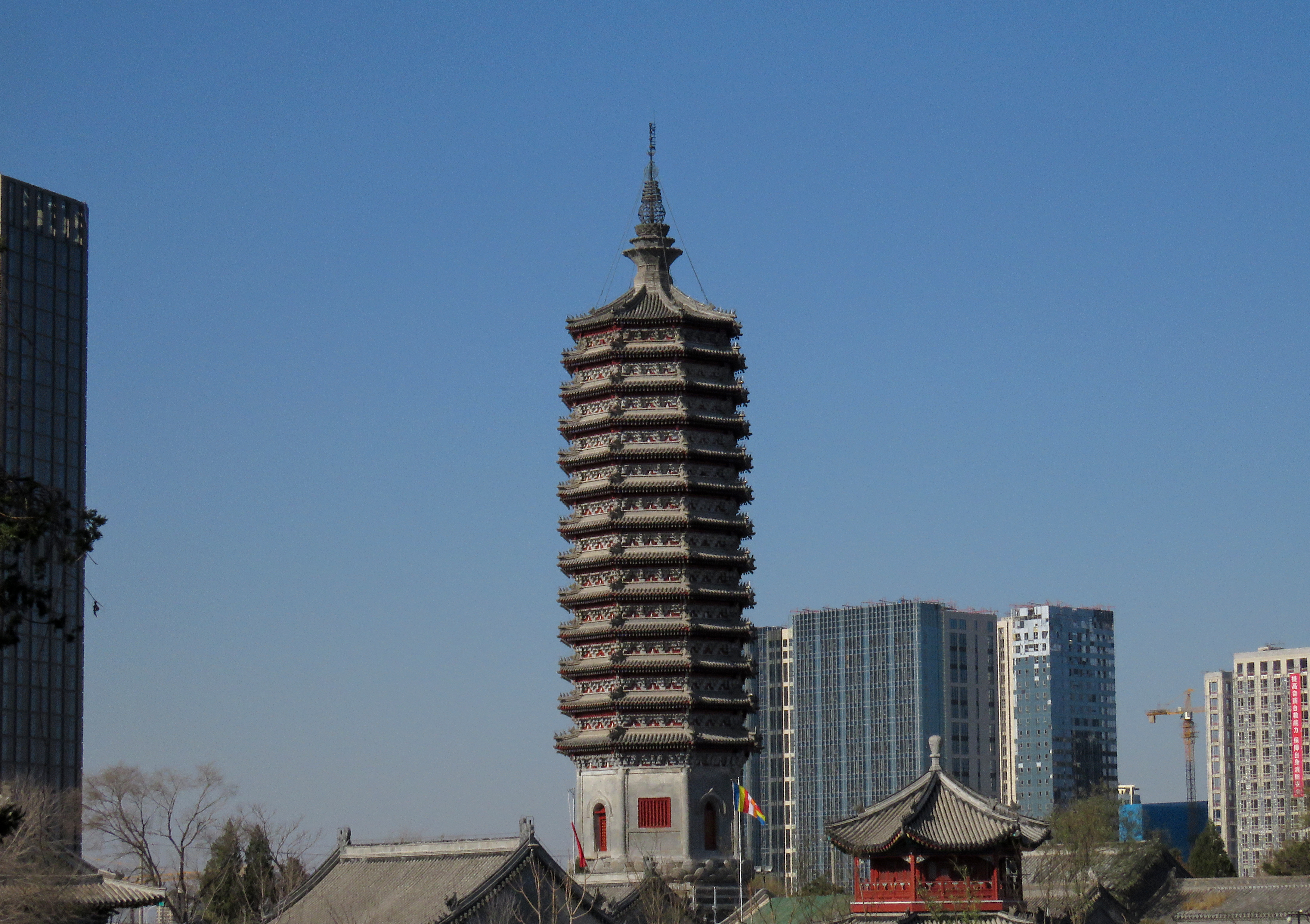 With buildings of the sub-center on the back.